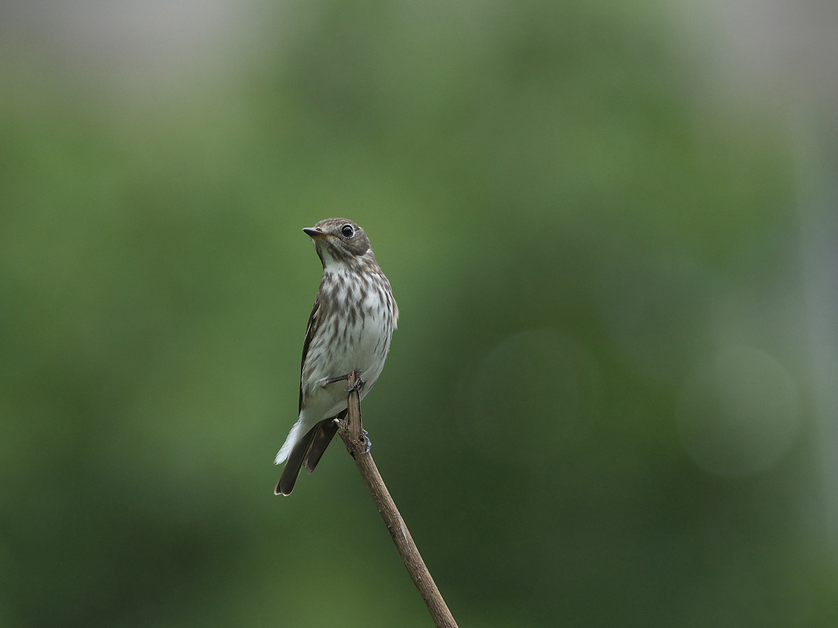 winter visitor in Taiwan.